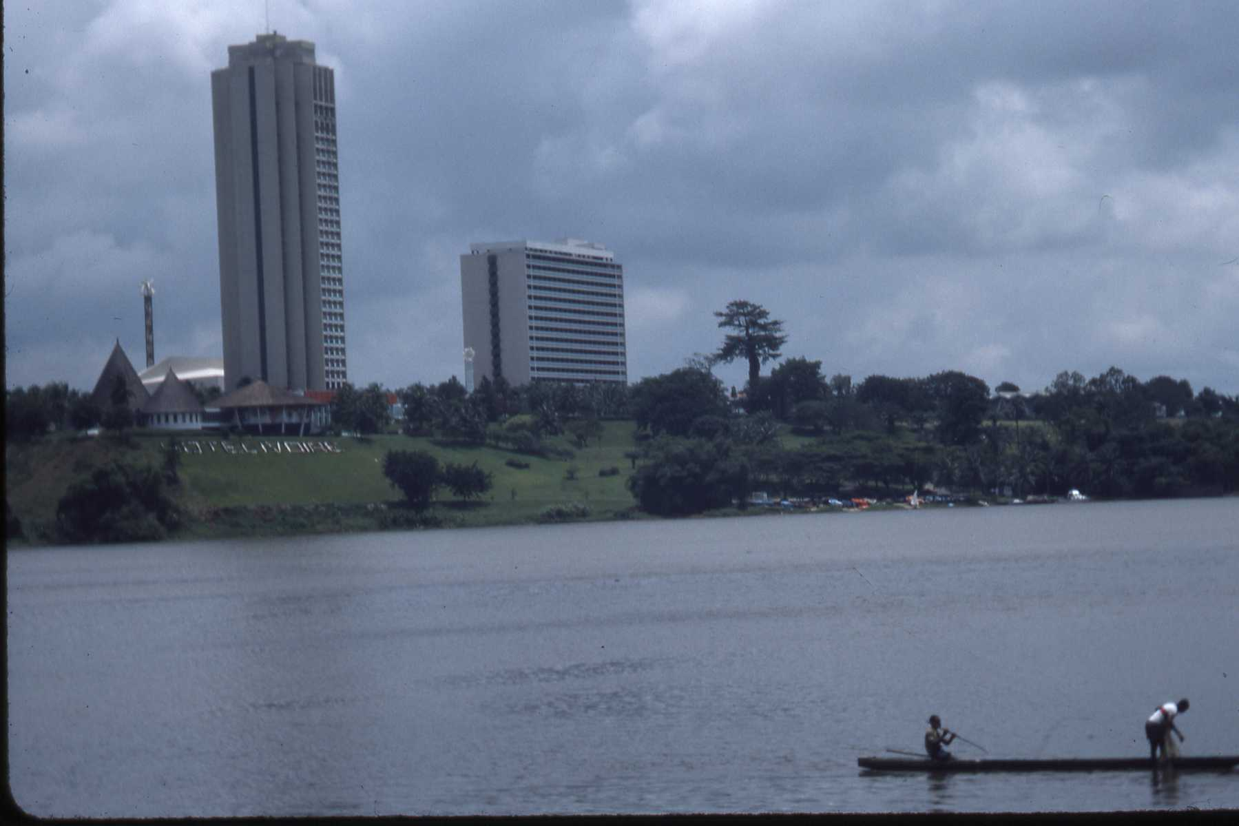 Hotel Ivoire, on the bay in Abidjan, Côte d'Ivoire.